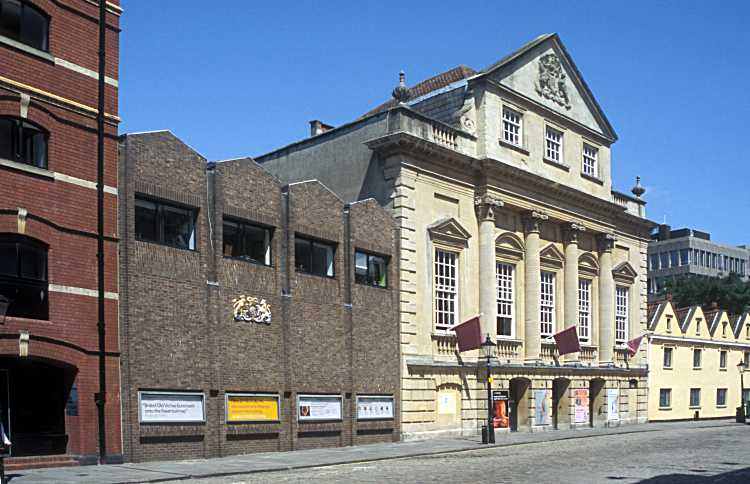 The Bristol Old Vic theatre complex in Bristol, England. The Georgian facade is the Coopers' Hall and only became linked to the theatre in the 1970s. Photograph taken by Rob Brewer on 23 July 2004.